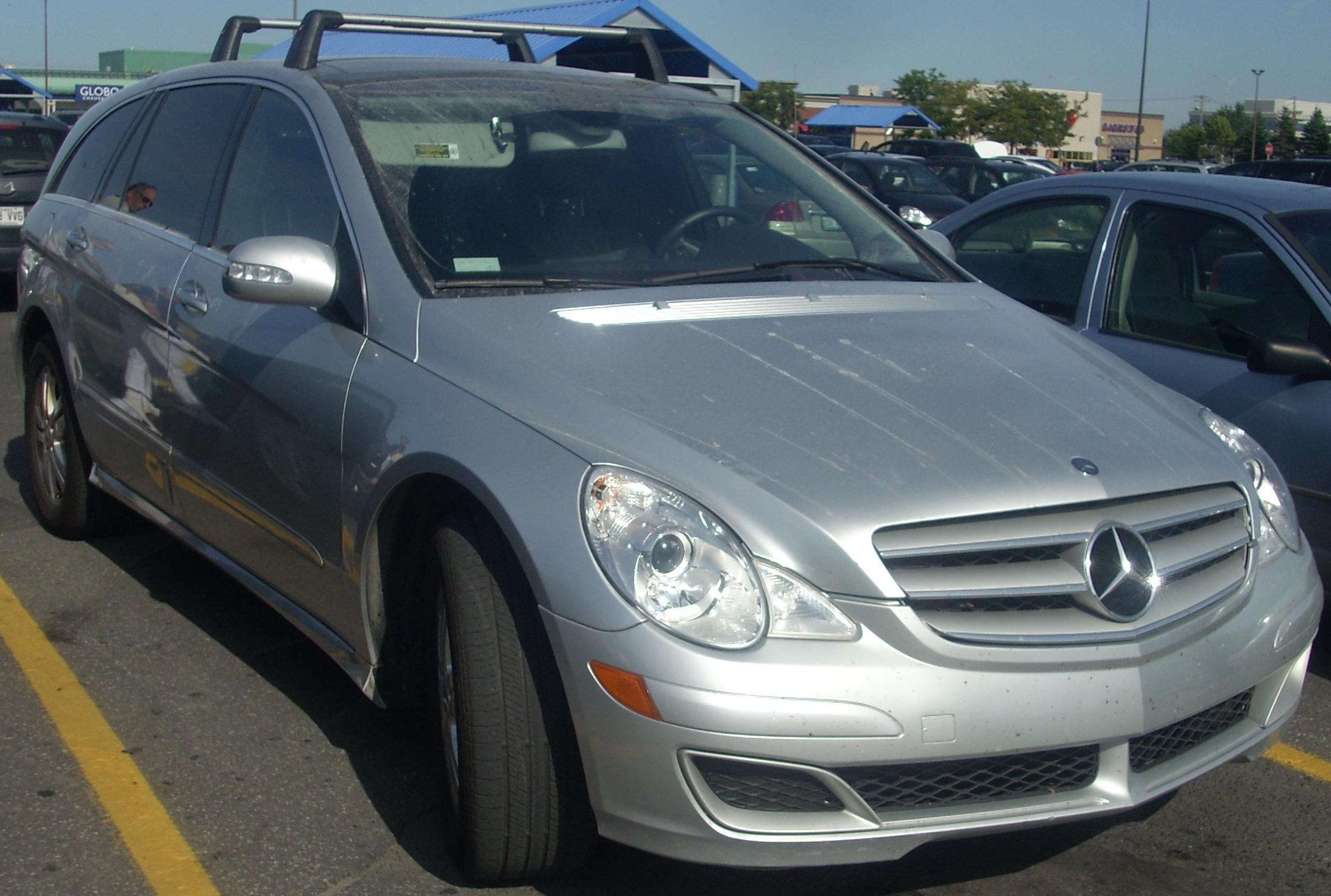 2006-2010 Mercedes-Benz R-Class photographed in Montreal, Quebec, Canada.